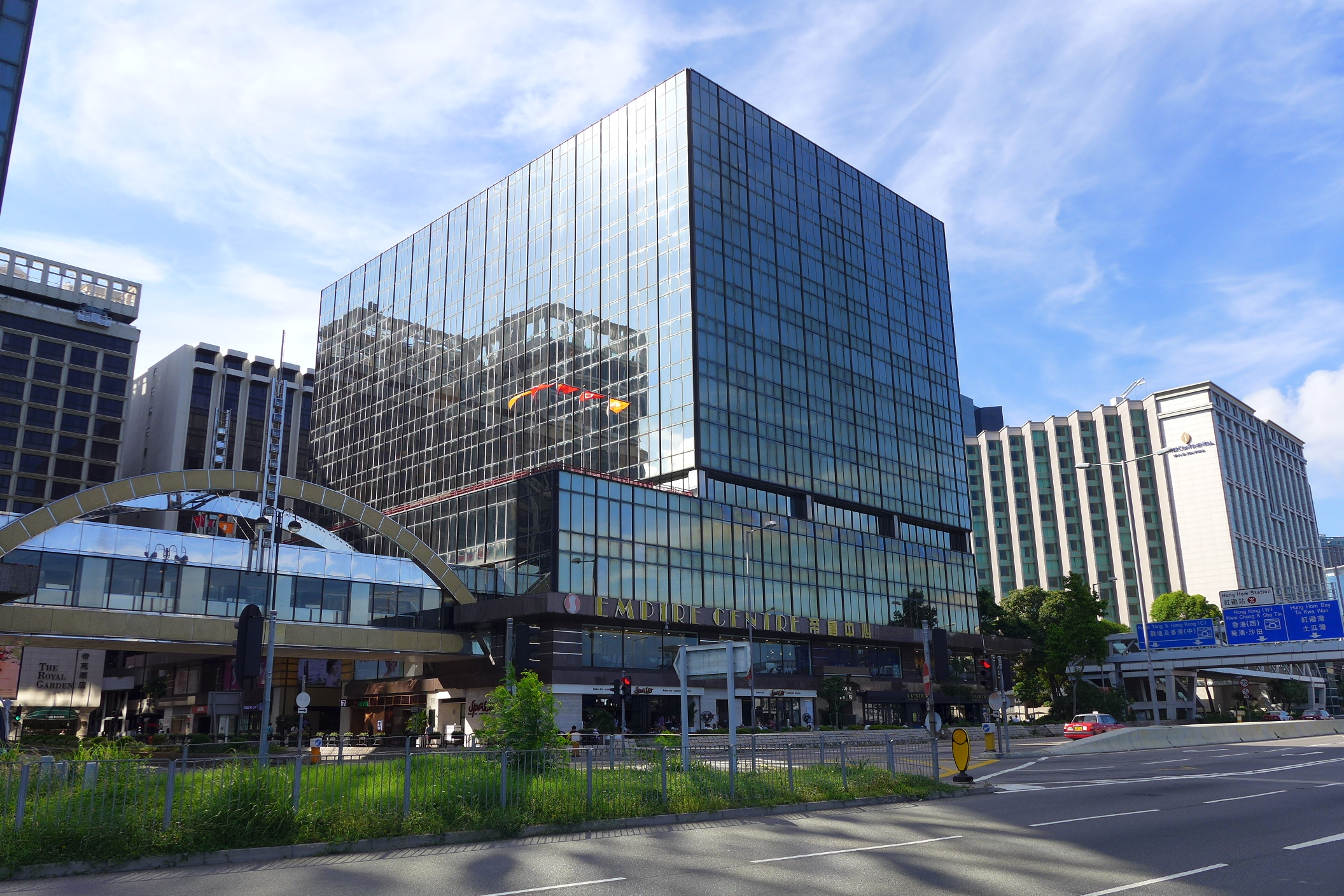 Empire Center, Hong Kong